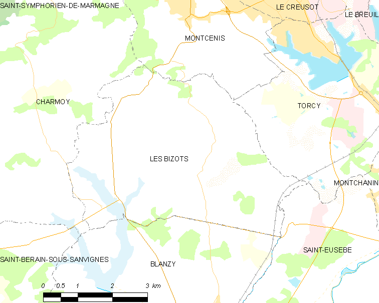 Map of French municipality